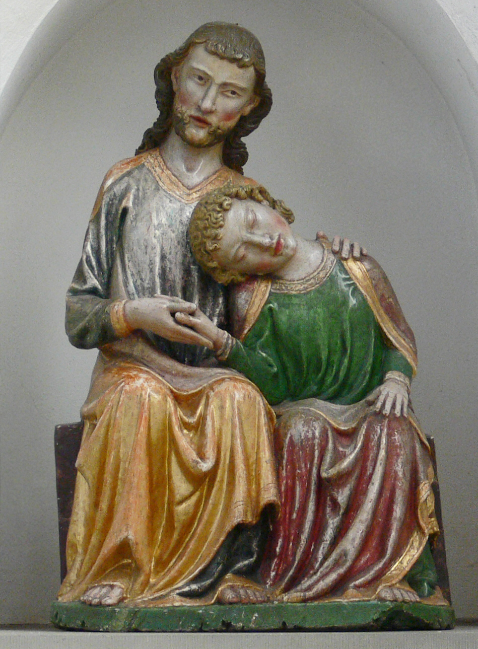 John the Apostle resting on the bosom of Christ, Swabia/Lake Constance, c. 1310; Heiligkreuztal Abbey Church